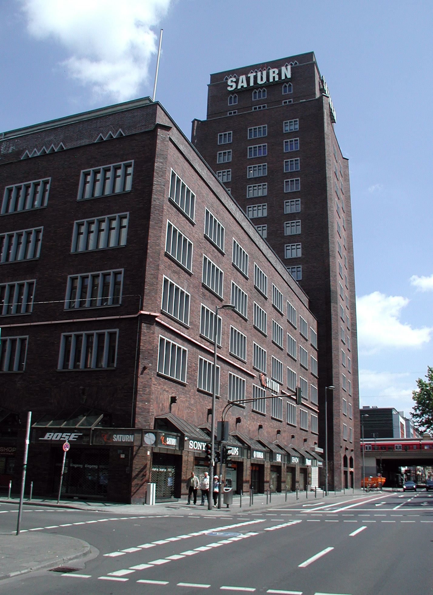 Cologne, "Hansahouse" (1924–1925 )